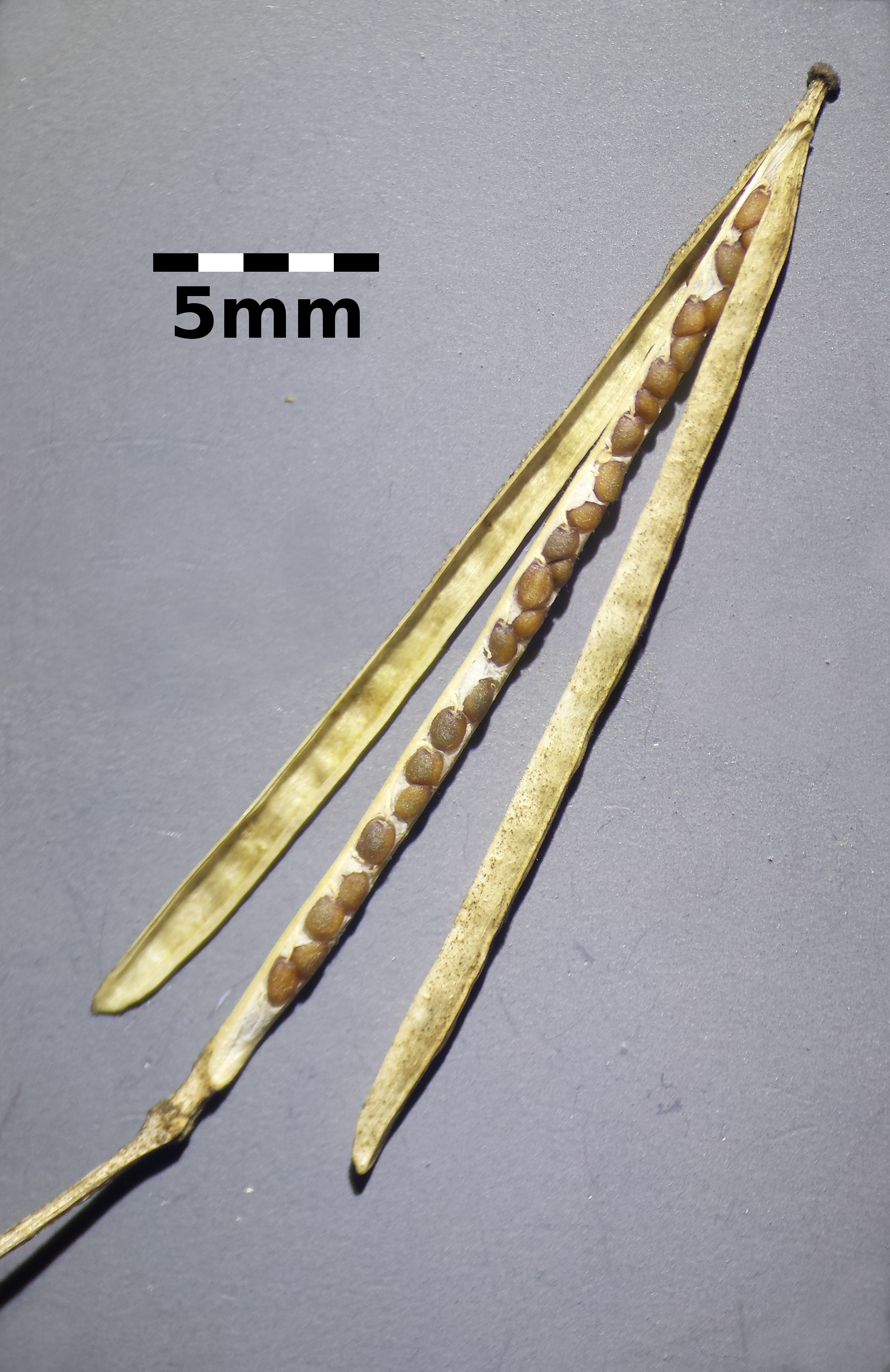 Opened silique Taxon: Diplotaxis tenuifolia (sensu Fischer et al. EfÖLS 2008 ISBN 978-3-85474-187-9) Location: Neue Donau, Vienna-Floridsdorf - ca. 160 m a.s.l. Habitat: ruderal meadows